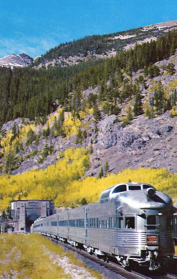 Postcard photo of the Chicago, Burlington and Quincy railroad's California Zephyr entering the Moffat Tunnel.